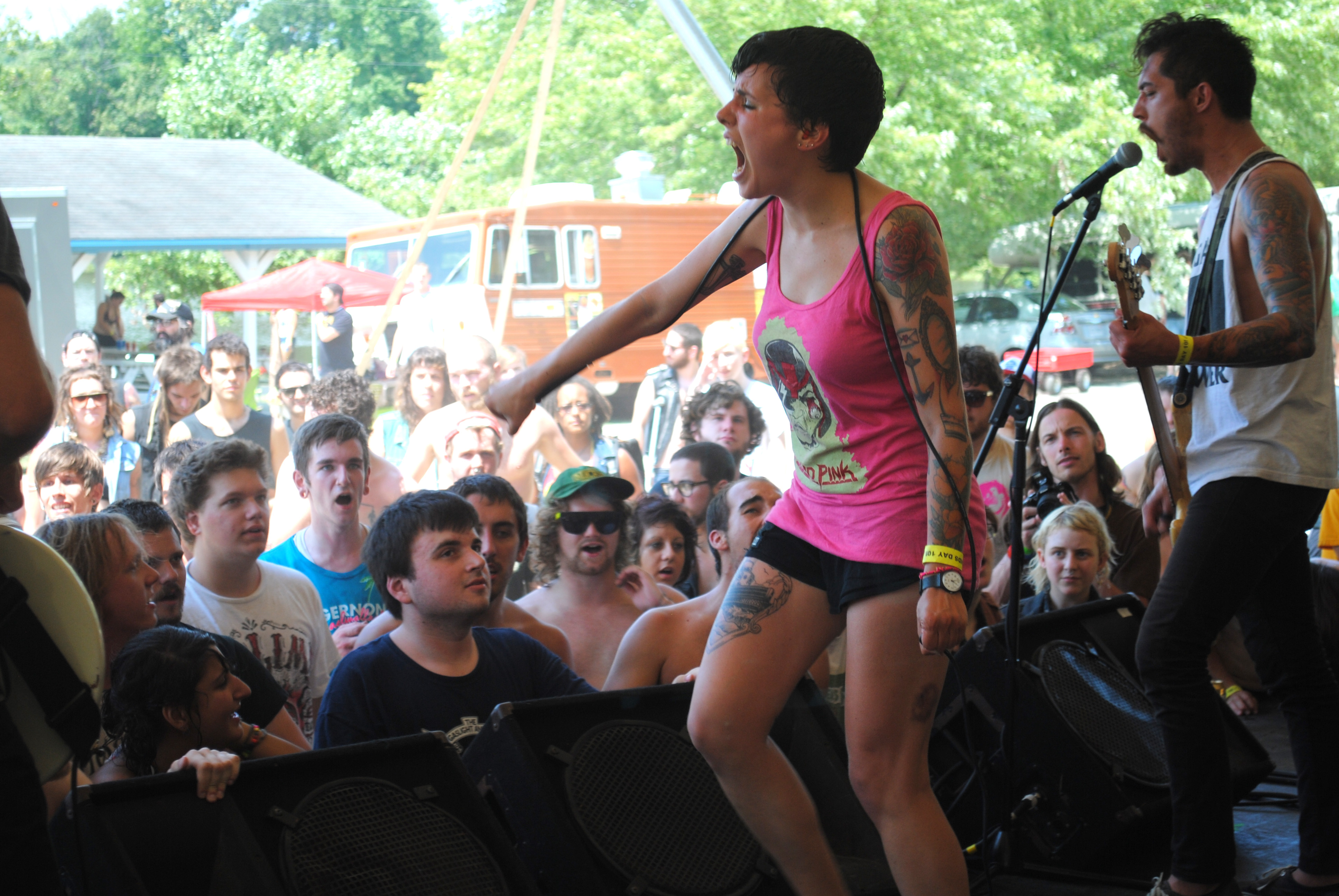 Published on